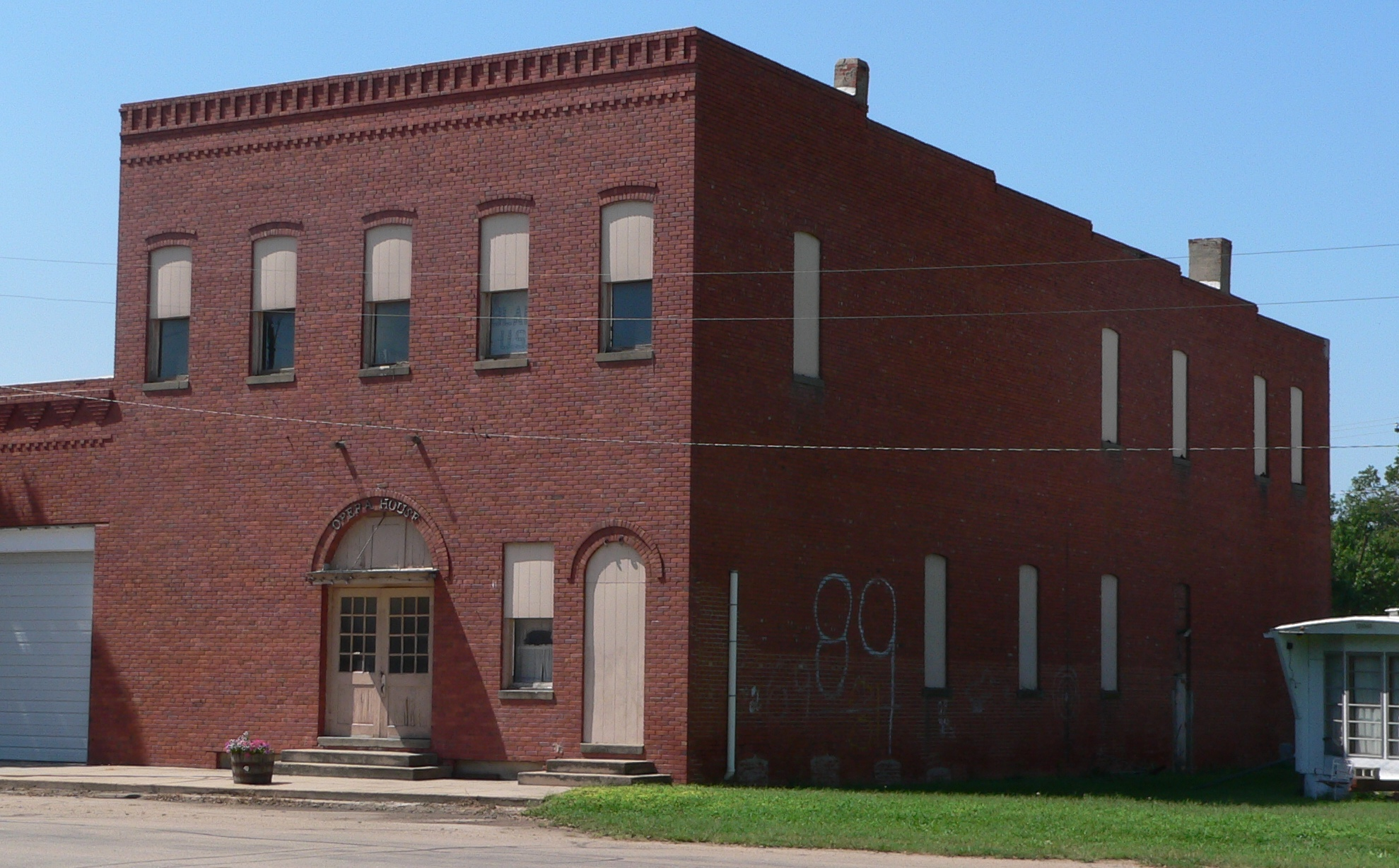 IOOF Hall and Opera House in Bladen, Nebraska; seen from the northeast.